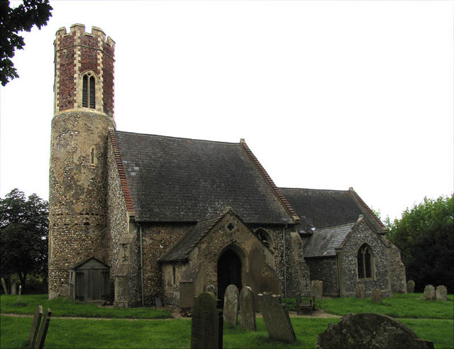 St Peter, Brampton, Norfolk